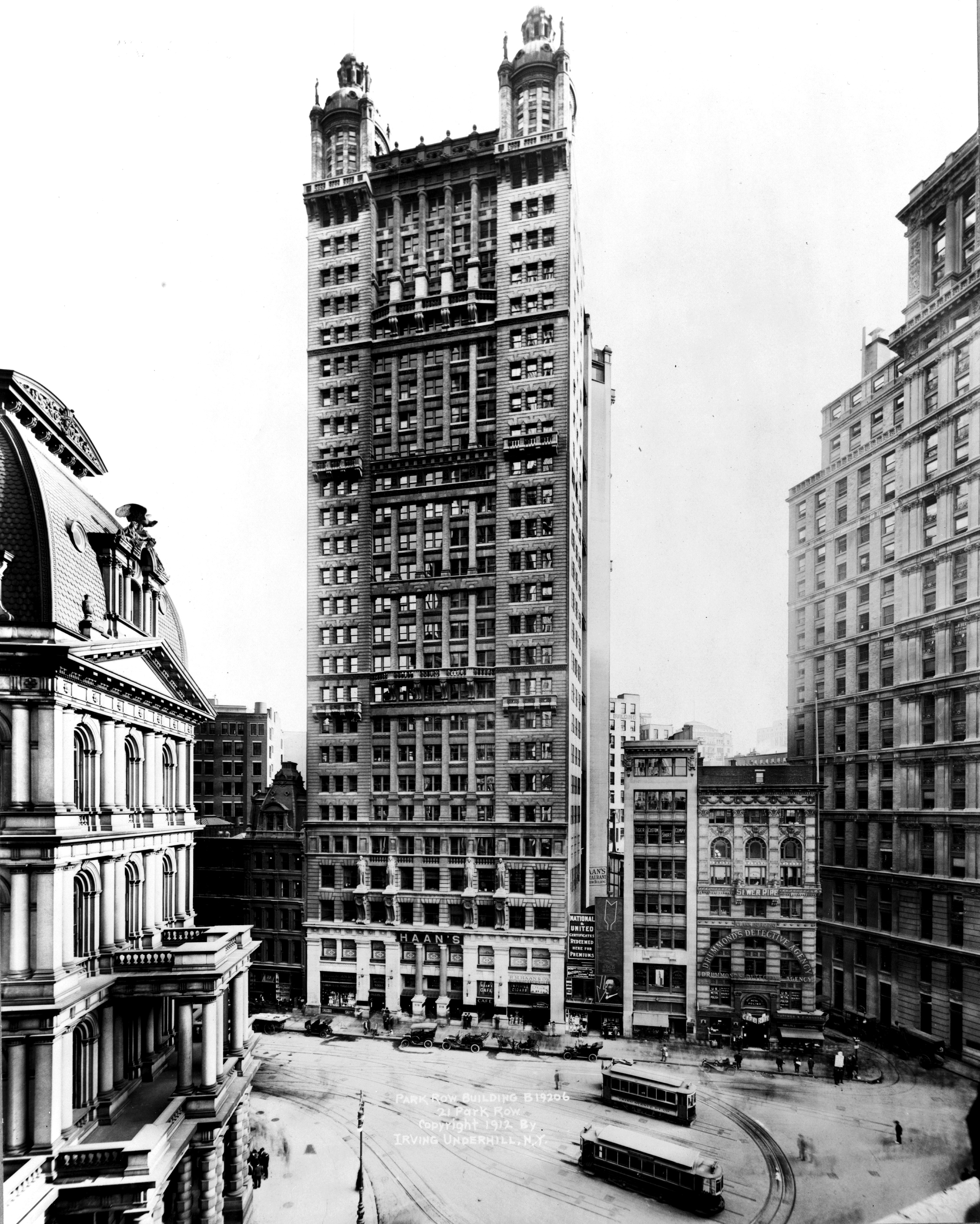 View of the Park Row Building, Manhattan, New York City, in 1912, showing automobiles parked on street and trolleys. Post Office is on left.